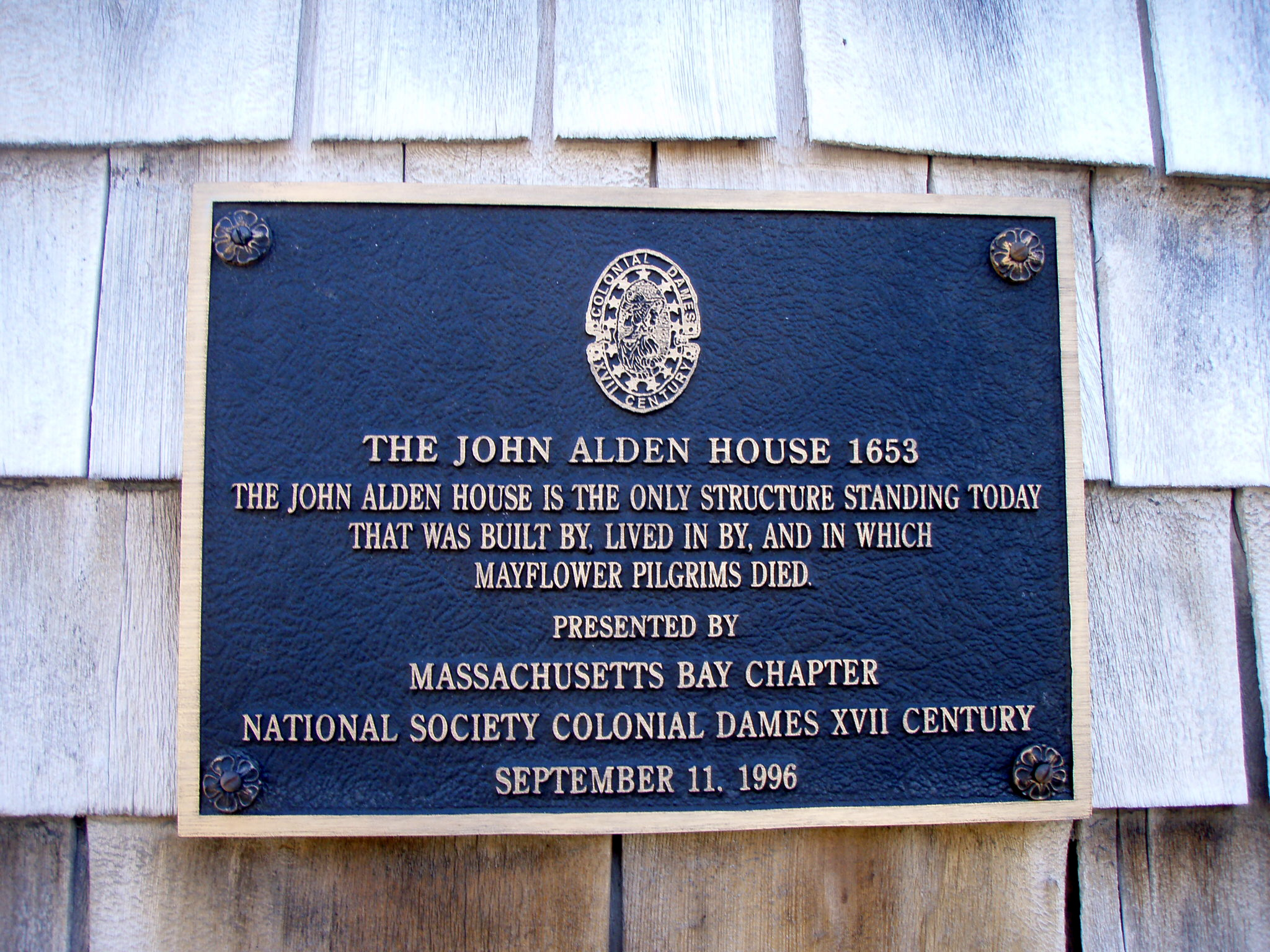 Historic plaque and marker on the John Alden House in Duxbury, Massachusetts